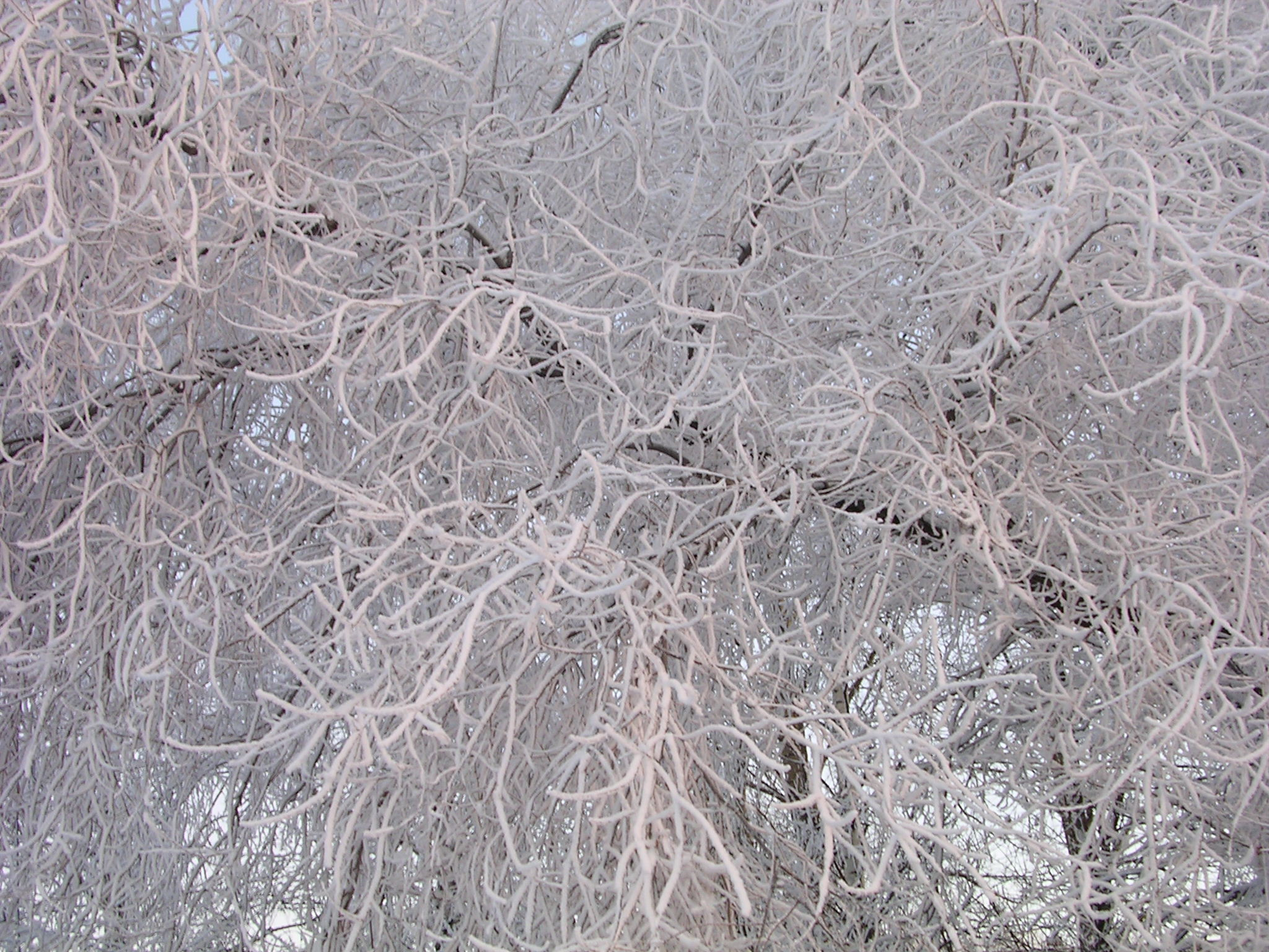 Hoar frost on branches